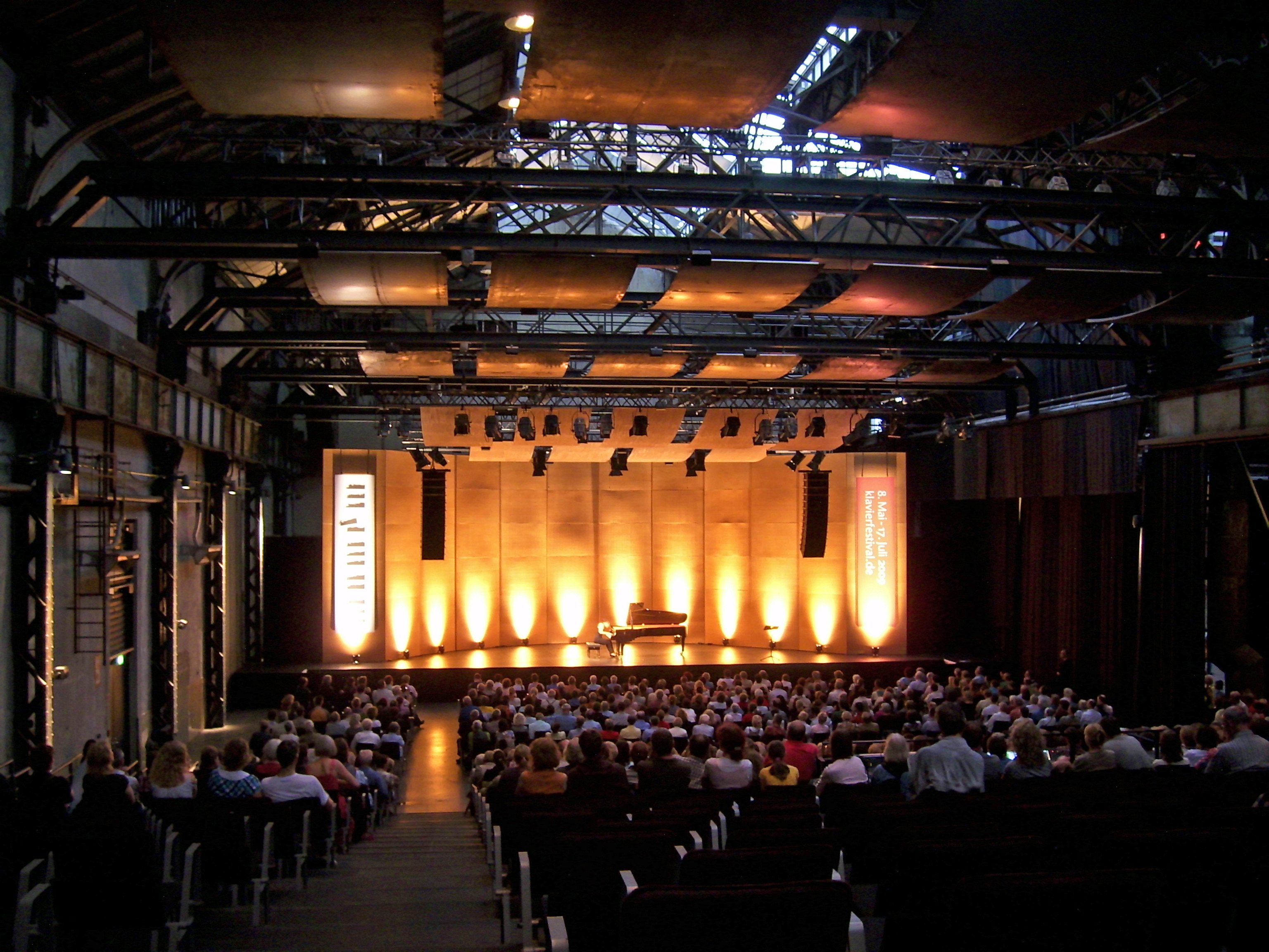 Extraschicht 2009